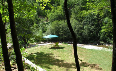 Sokolica rock, above the river Rzav, Central Serbia